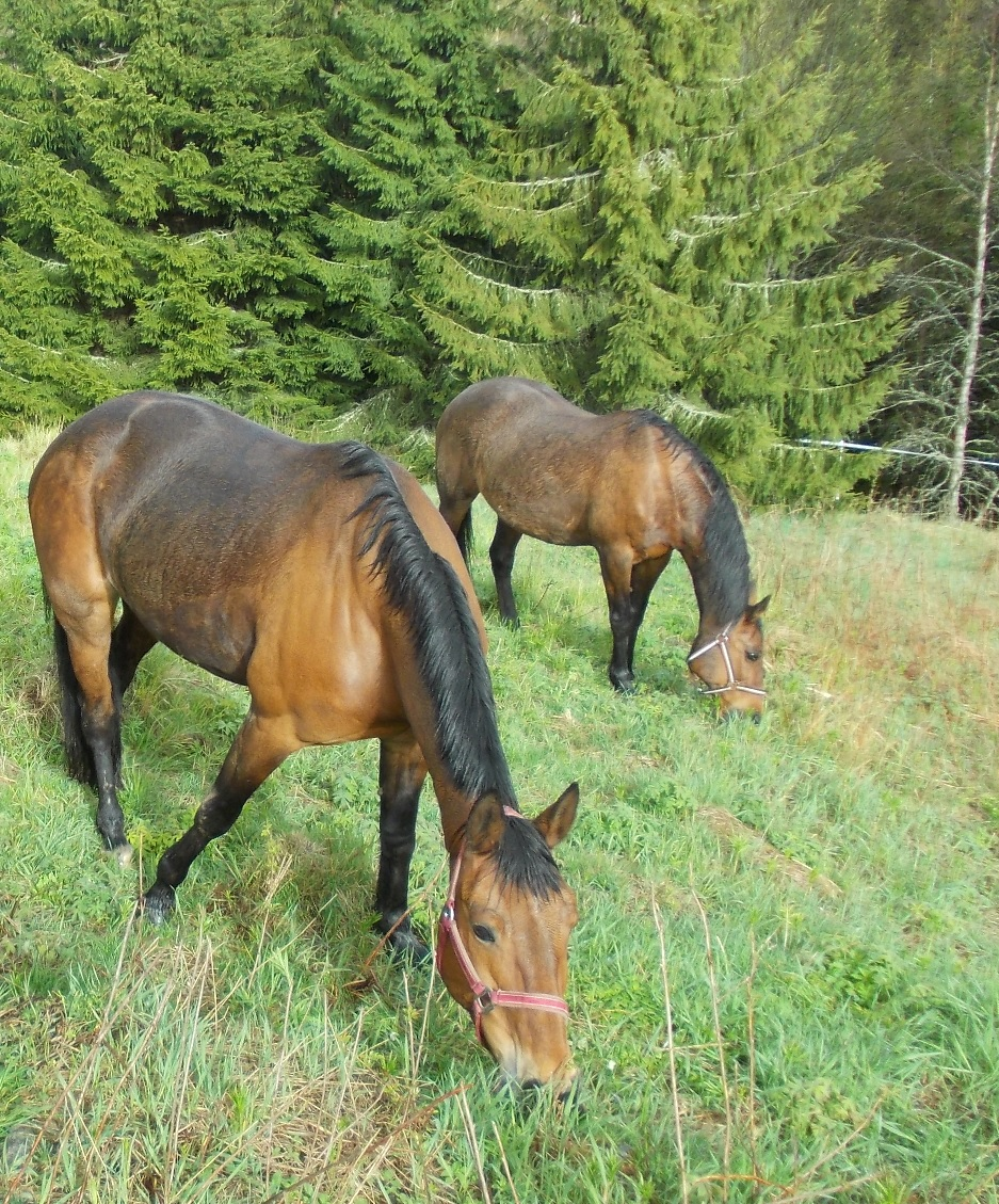 American Standardbred mares in Norway 2014.